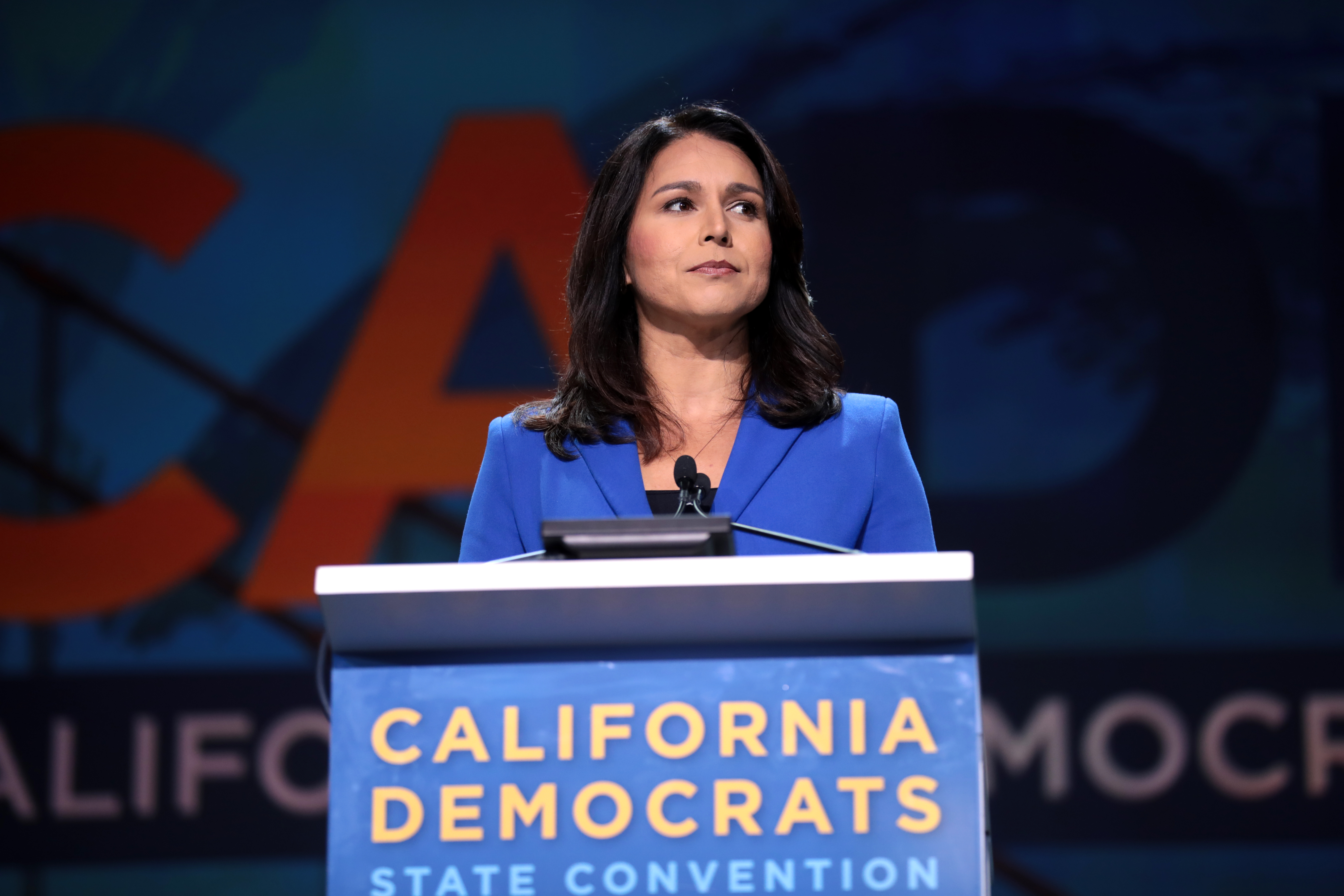 U.S. Congresswoman Tulsi Gabbard speaking with attendees at the 2019 California Democratic Party State Convention at the George R. Moscone Convention Center in San Francisco, California.